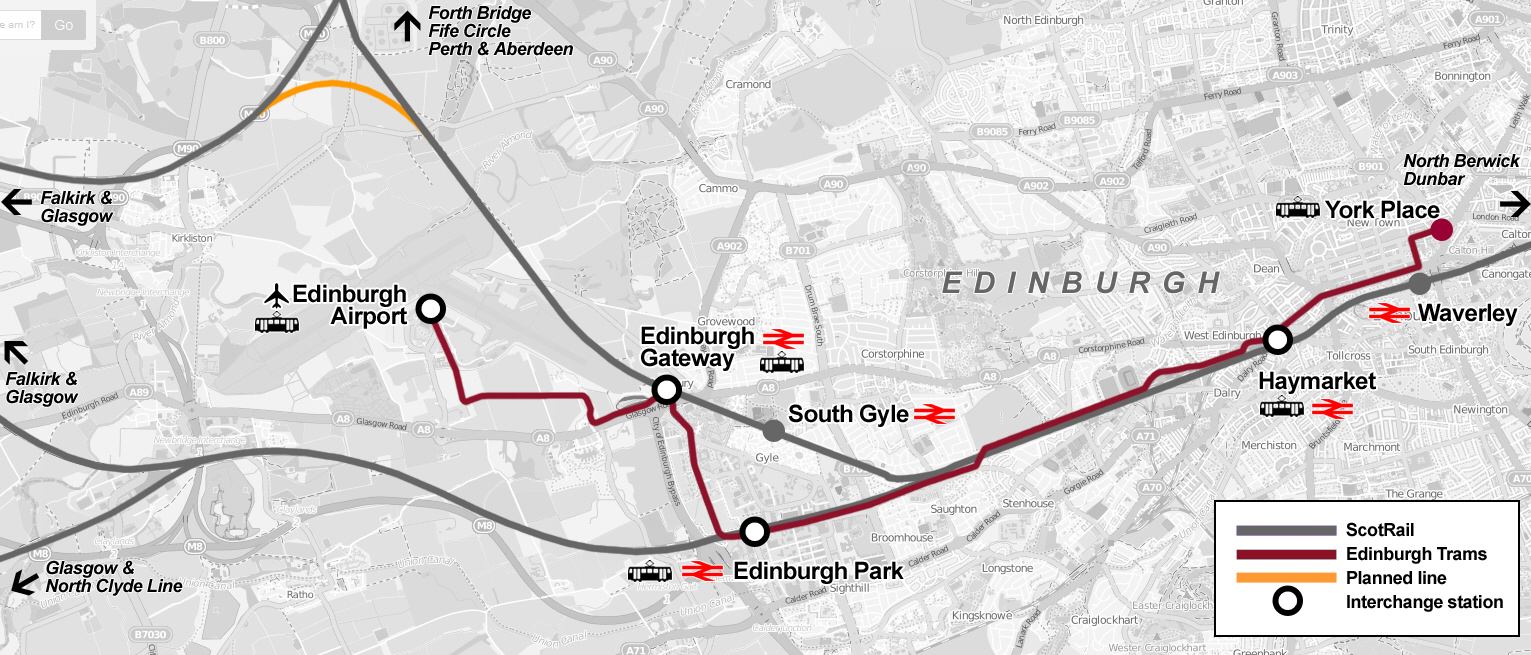 Map showing the location of the proposed Edinburgh Gateway station (expected to open in 2016). With both tram and railway platforms, it will provide an interchange between the Edinburgh Trams line (opened May 2014) and the Edinburgh to Fife mainline railway. Also shown is the planned chord line to offer new routes/extra capacity on the mainline railway between Glasgow and Edinburgh. Most stations omitted for clarity.